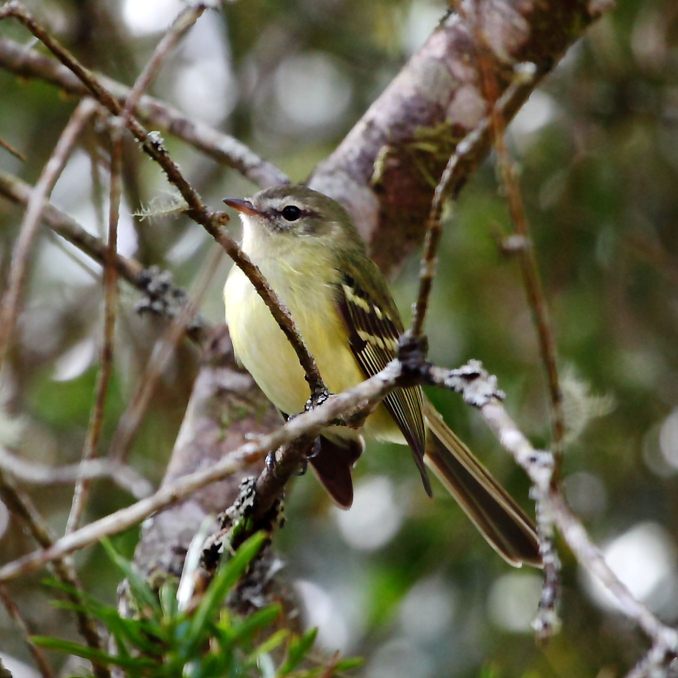 Greenish Tyrannulet at Campos do Jordão - SP - Brazil